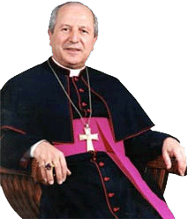 rocco talucci archbishop of Brindisi